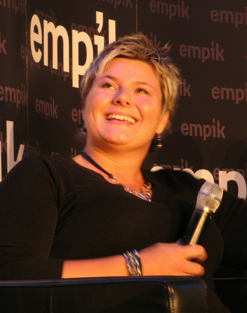 Kamila Skolimowska - Polish athlete, hammer thrower, Olympic gold medallist (Sydney 2000)